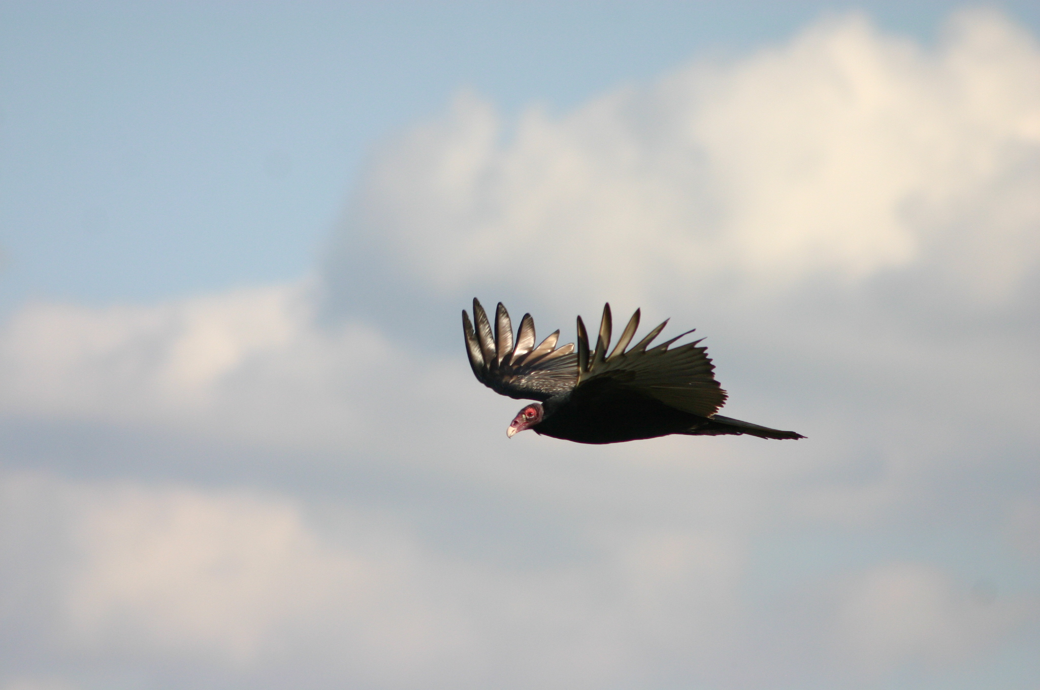 A flying Turkey Vulture Cathartes aura with its wings held upward in a shallow V. Shark Valley, Everglades National Park, Florida, USA.